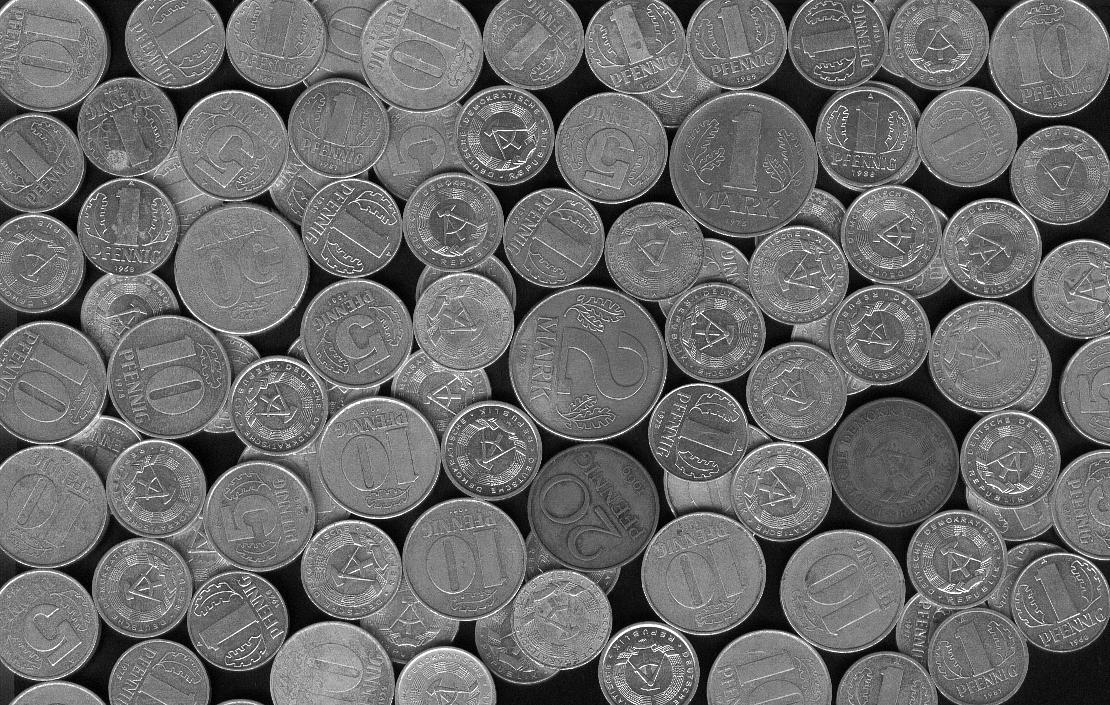 Coins of East Germany